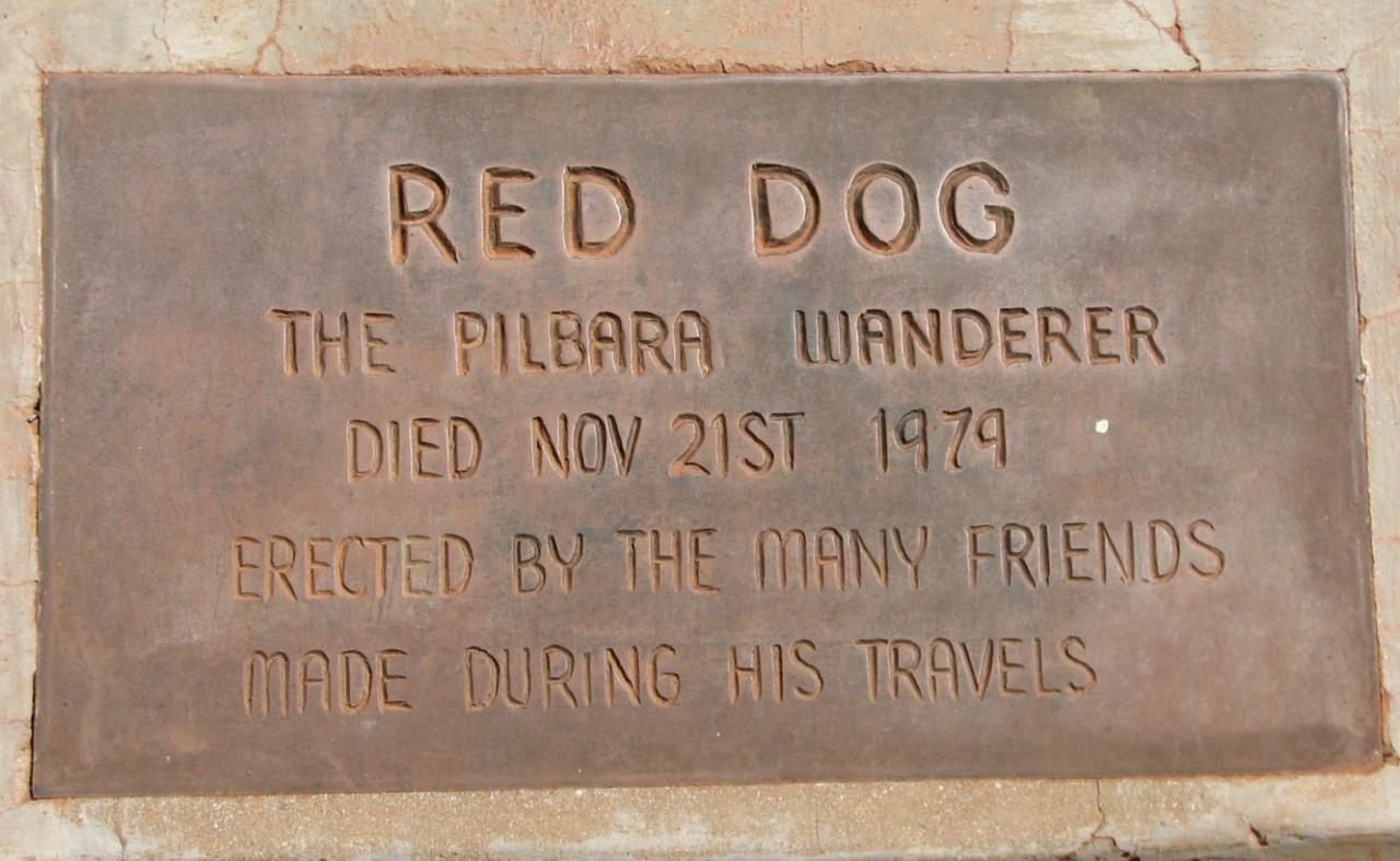 Located at the base of the stone beneath Red Dog Statue